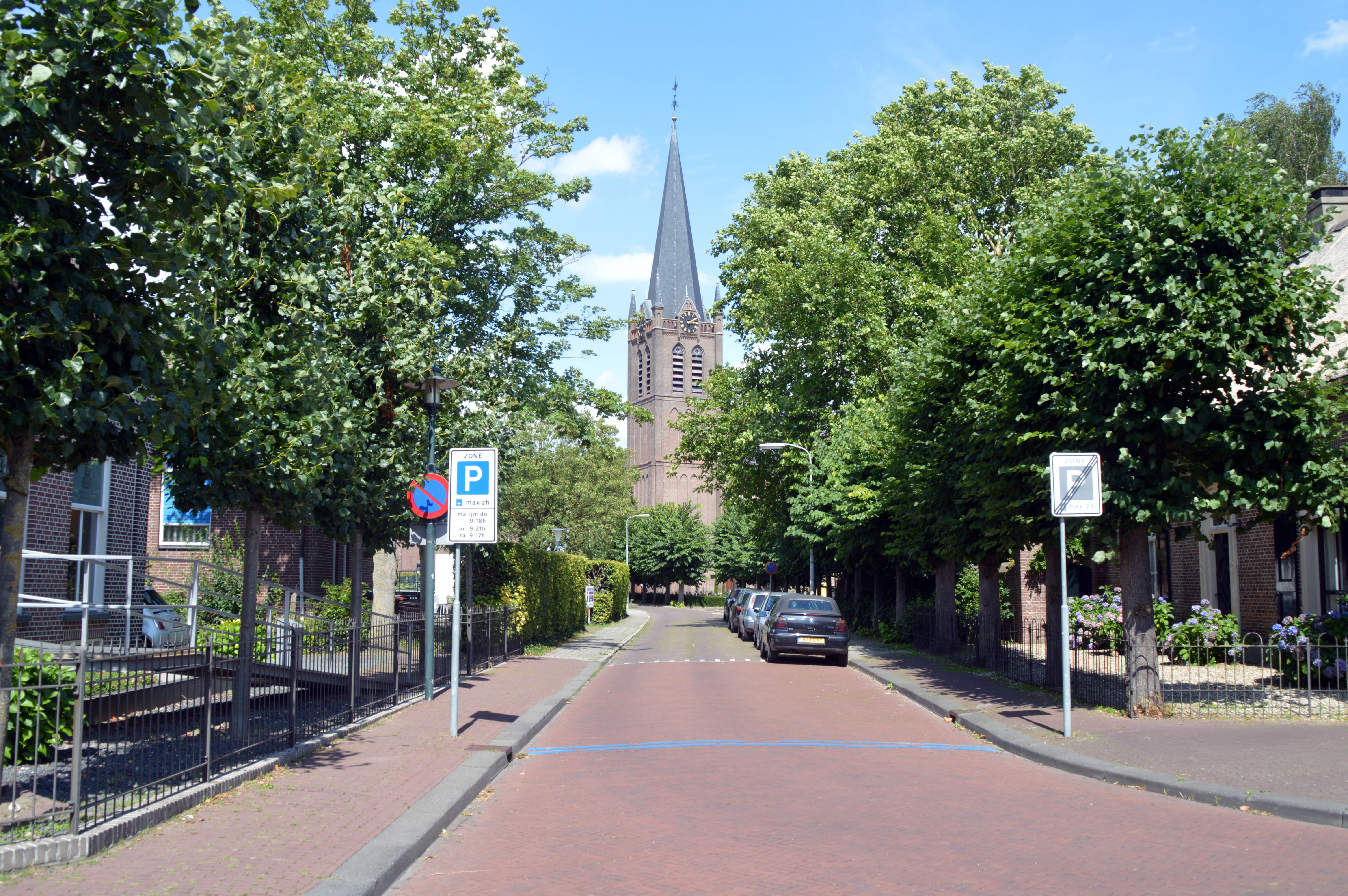 Corneliuskerk Beuningen Gelderland Architect Caspar Franssen Roman Catholic 1901